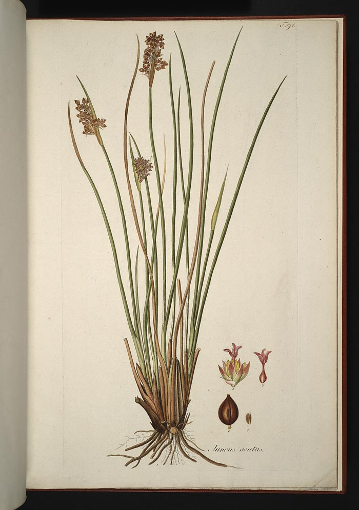 Description of Image: Illustration of Juncus acutus 97 (Juncus acutus L., spiny rush)